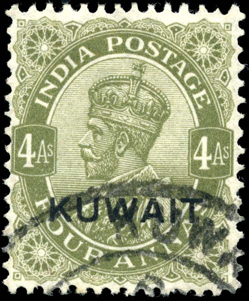 Kuwait 4a overprint stamp of 1934